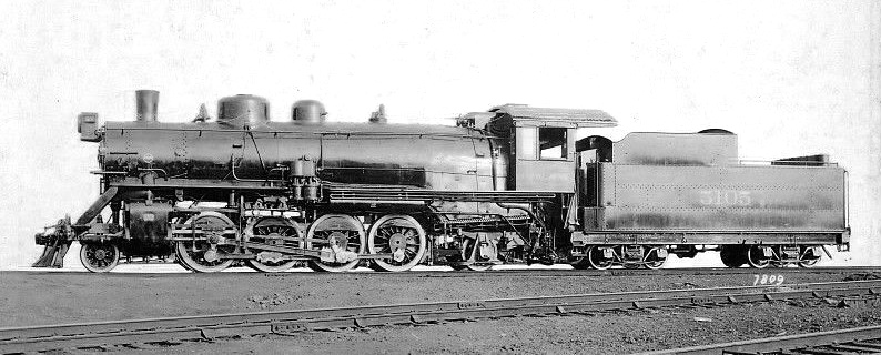 Baldwin builders' portrait for the Burlington's #5105-a 2-8-2 locomotive.